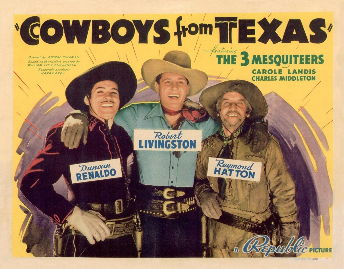 L. to R. : Duncan Renaldo, Robert Livingston & Raymond Hatton in Cowboys from Texas - poster